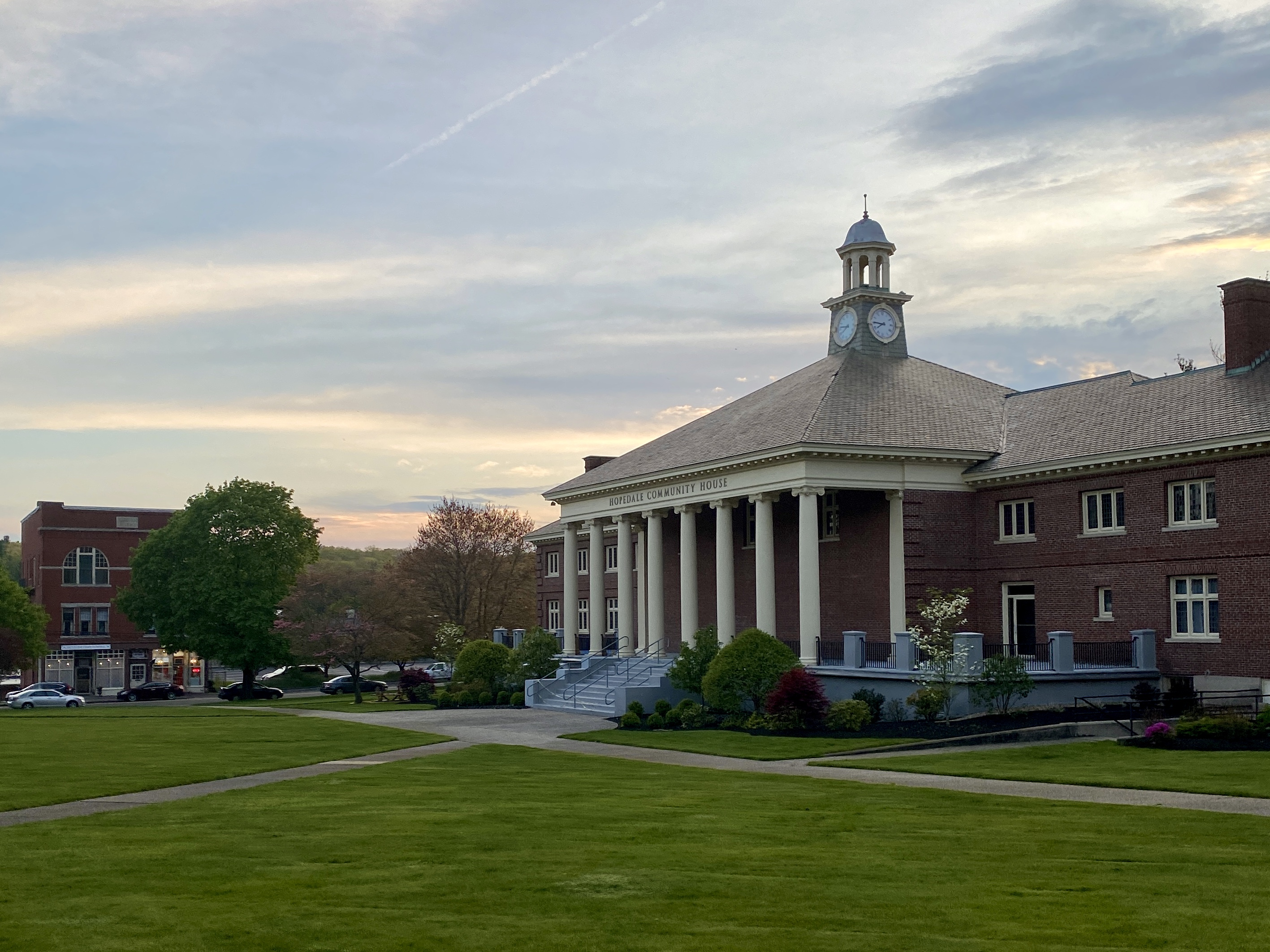 Depicts Hopedale's downtown, including Harrison Block and Community House